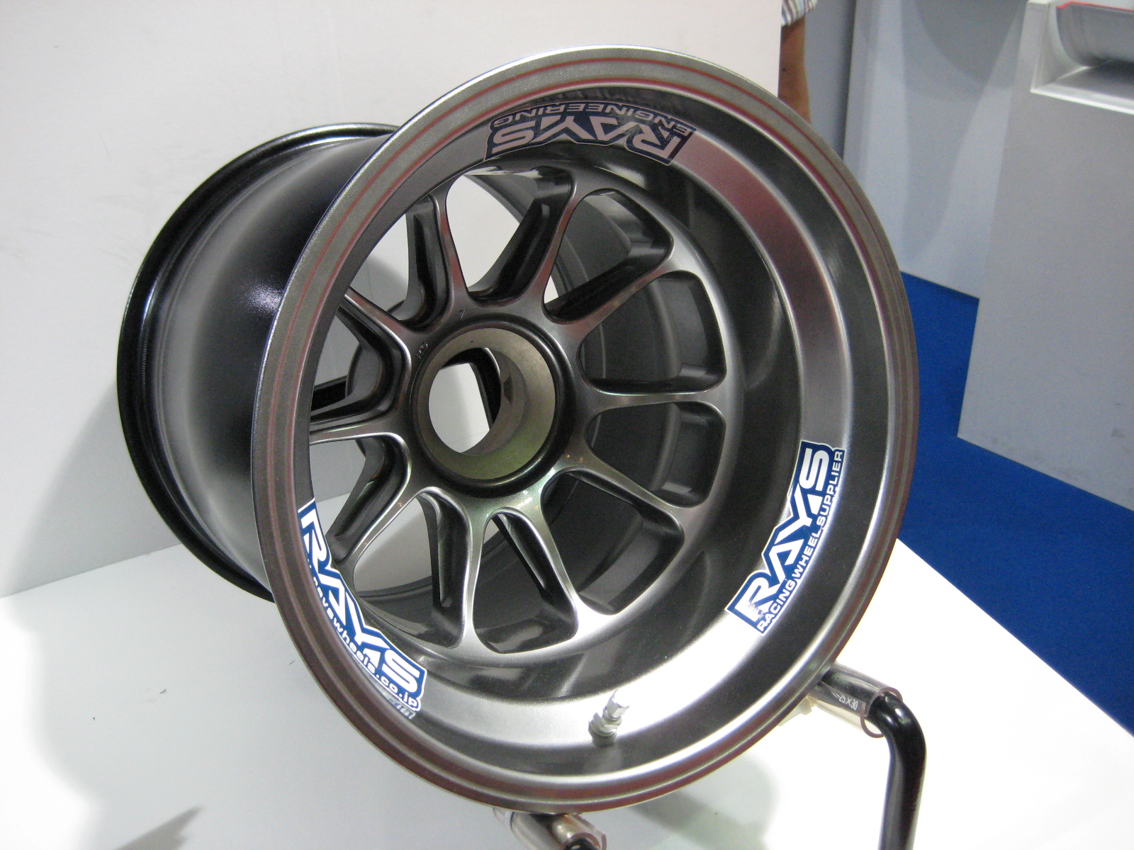 Rays F1 Rear Wheel supplied to Williams F1 Team